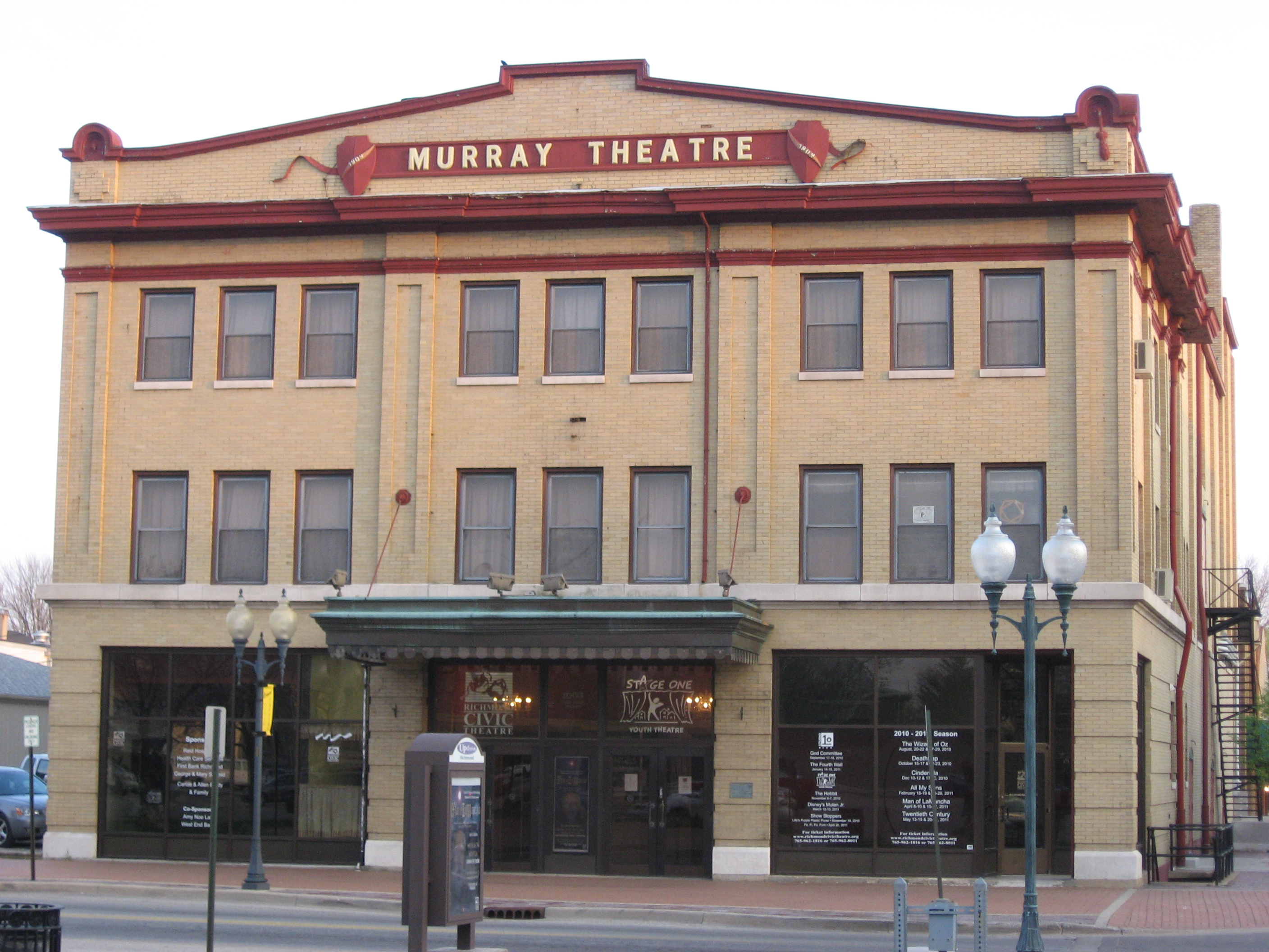 Front of the Murray Theater, located at 1003 Main Street in downtown Richmond, Indiana, United States. Built in 1909, it is listed on the National Register of Historic Places.